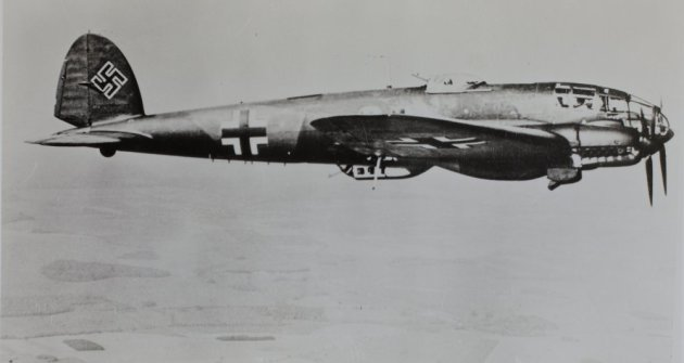 Heinkel He 111k PictionID:38237073 - Catalog:Array - Title:Array - Filename:15_002346.TIF - -------Image from the Charles Daniels Photo Collection.----Album: German Aircraft.-----------PLEASE TAG these images with any information you know about them so that we can permanently store this data with the original image file in our Digital Asset Management System.-----------------SOURCE INSTITUTION: San Diego Air and Space Museum Archive